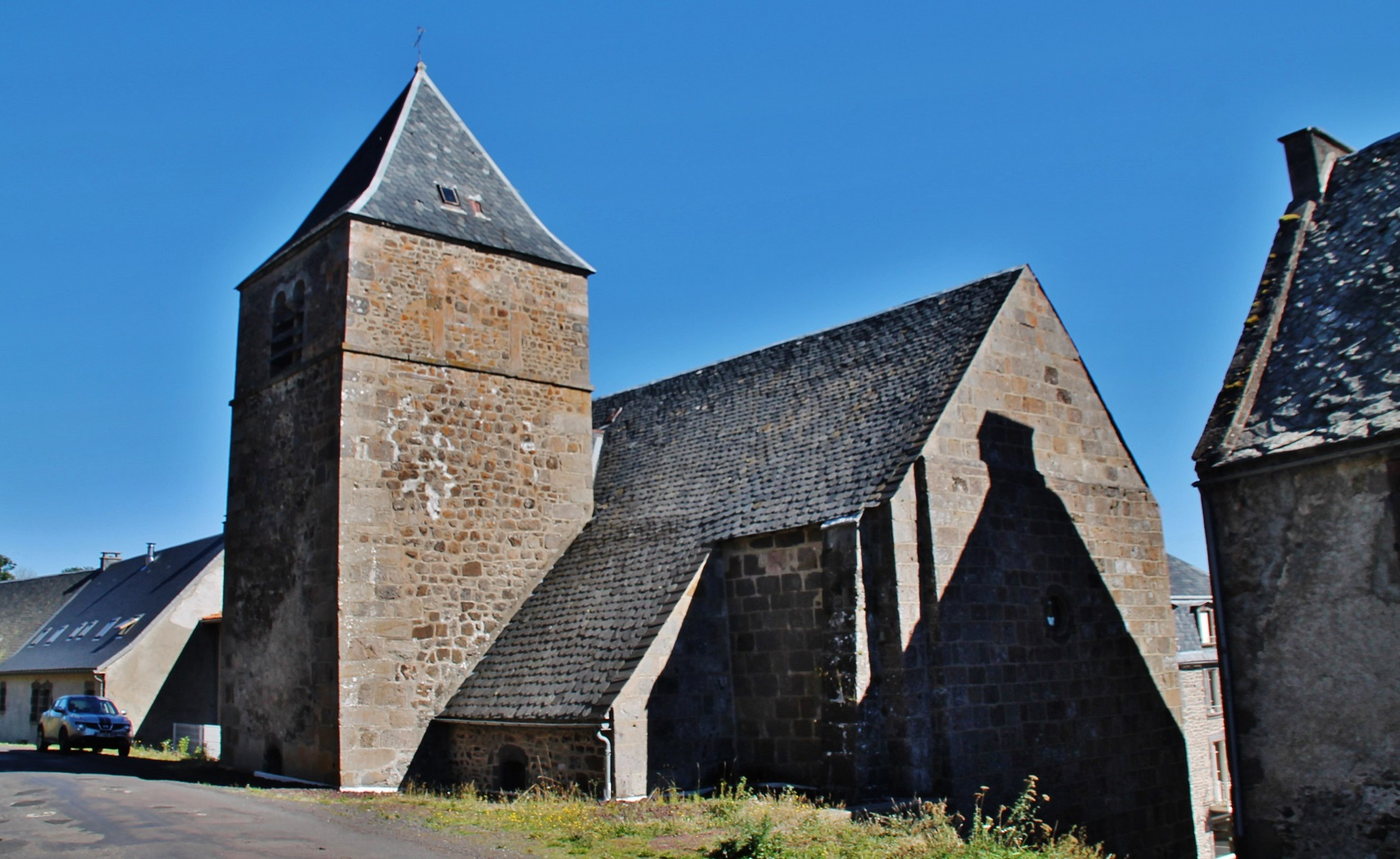 église Ste Marguerite